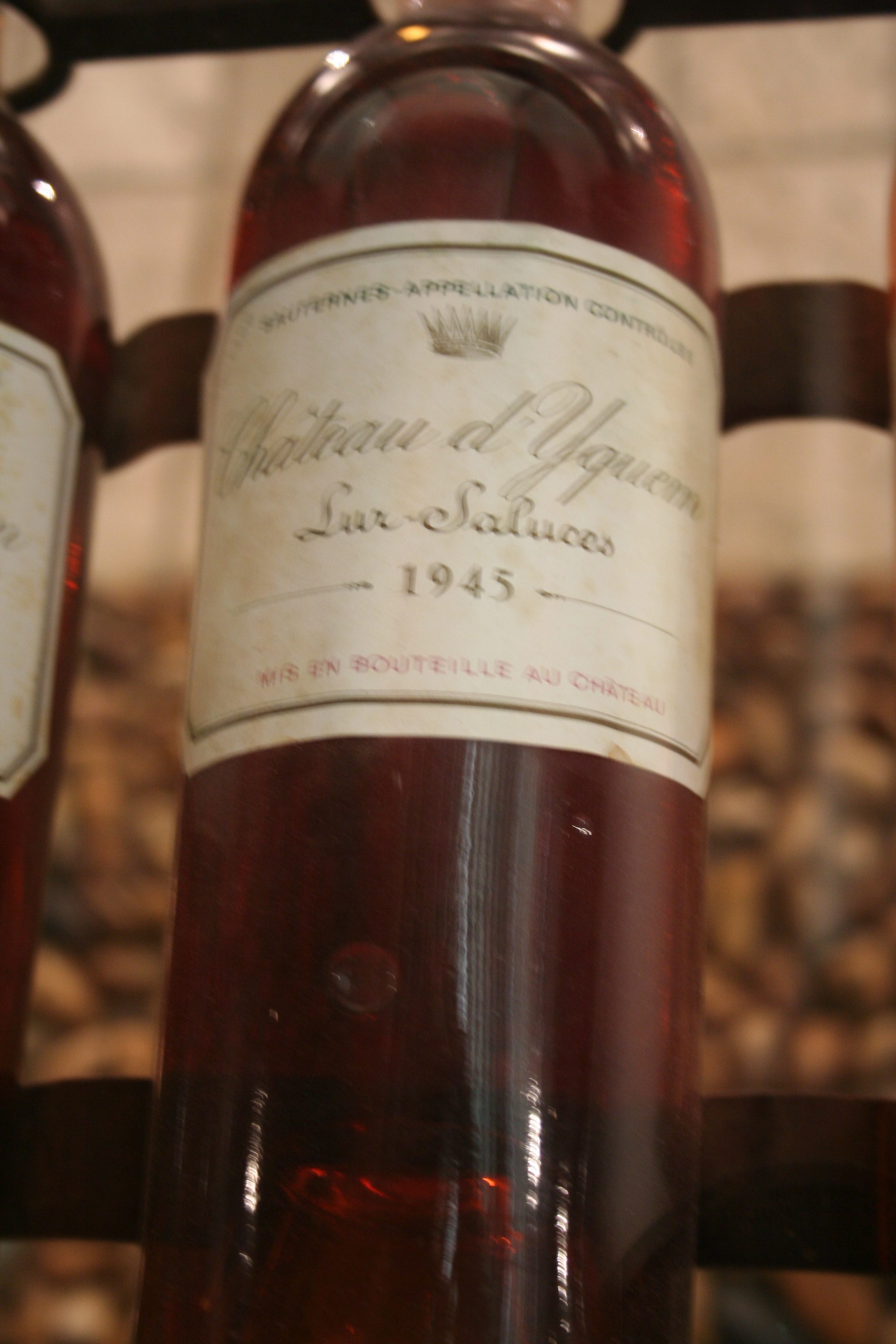 An example of the color change that the white French dessert wine from Bordeaux goes through.